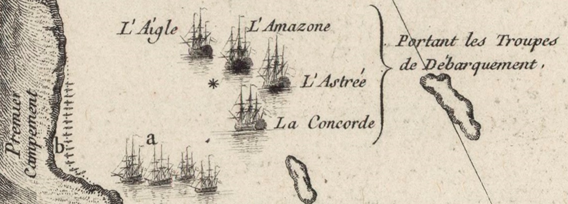 The French ships l'Aigle, the Amazon, l'Astrée and Concorde at the landing of the troops during the attack on Rio in September 1711 (letter b). Detail of a general plan of the attack dated 1711, but probably later because the return was only in February 1712. War of Succession of Spain.